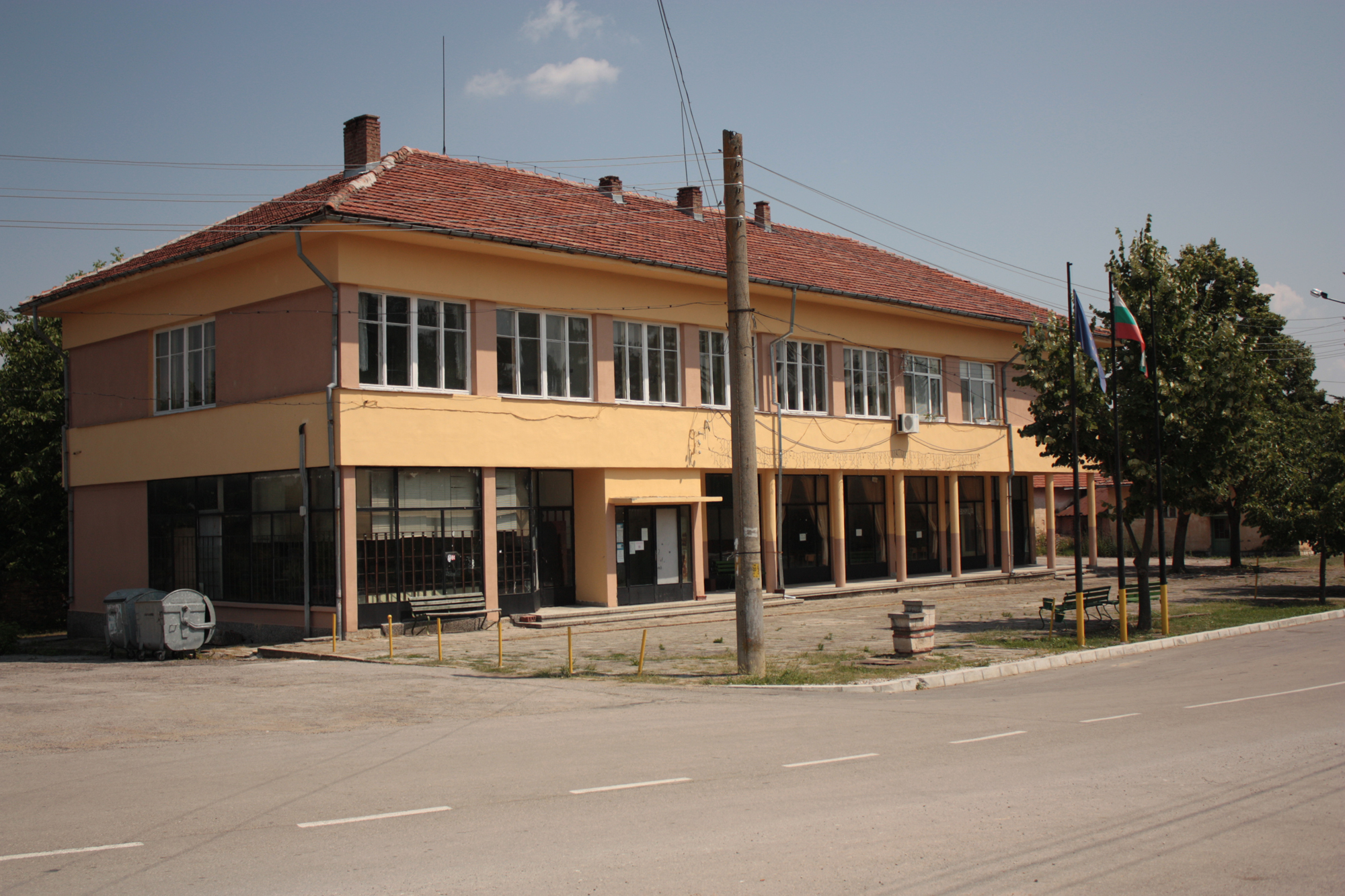 Karpachevo municipality office